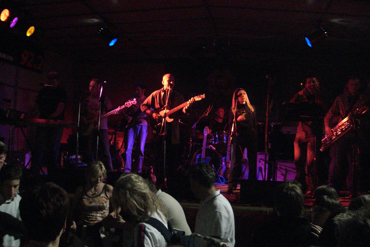 Gustafi, rock band from Croatia, playing on "Marunada" fest in Lovran, 15th october 2006.